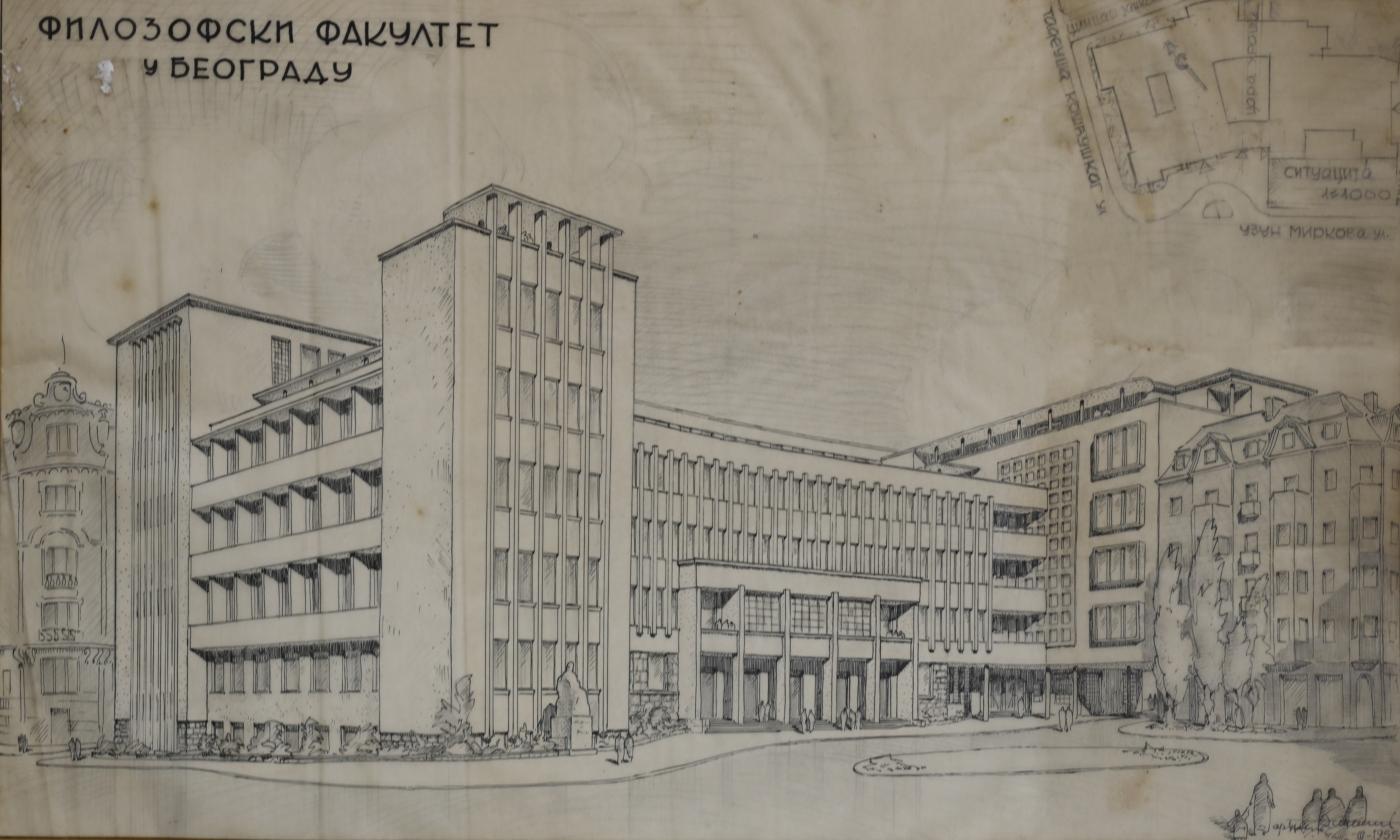 Plan of Faculty of Phylosophy in Belgrade, made by architects Aleksandar Deroko and Petar Anagnosti. The idea was not relized.